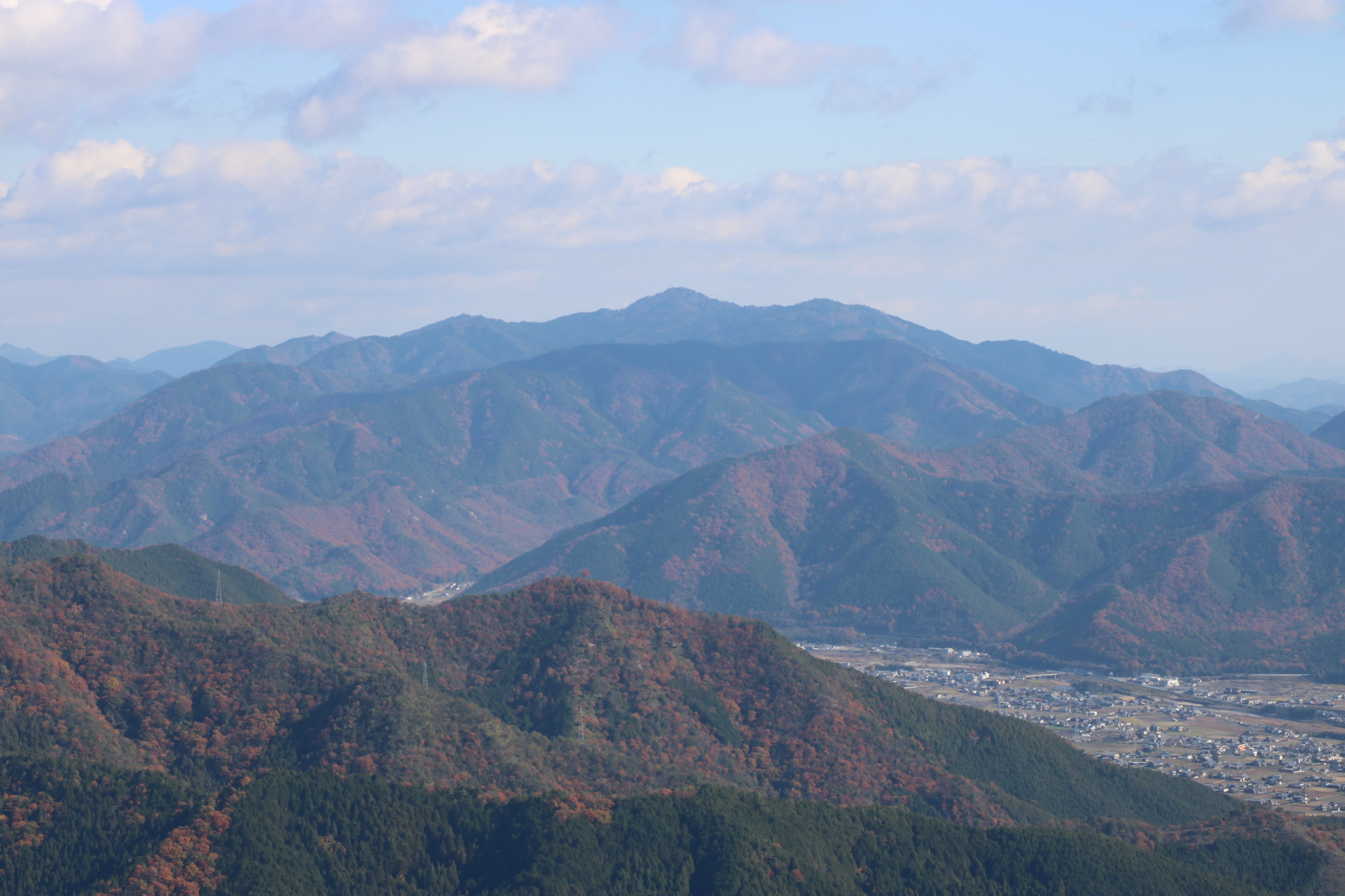 Mount Kasagata seen from the WSW. Taken from Mount Nagusa.